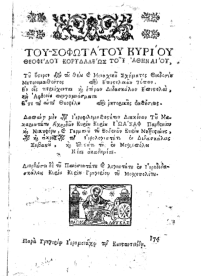 Front page of Περί επιστολικών τύπων (Περί ρητορικής εκθέσεως) by Theophilos Corydalleus (Θεόφιλος Κορυδαλεύς), Greek edition 1744